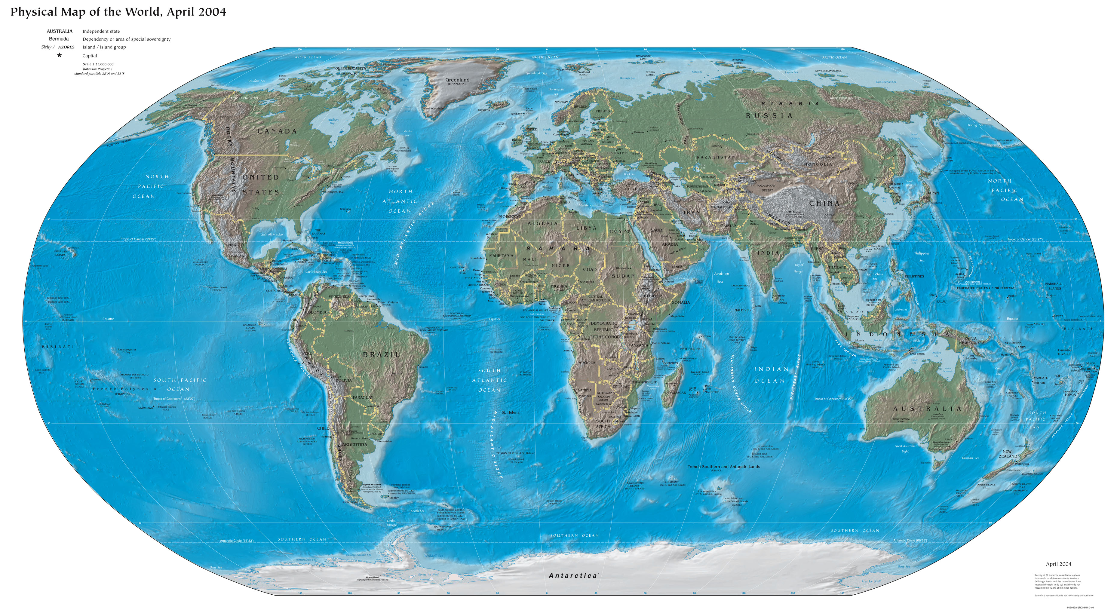 Physical World Map 2004-04-01 CIA World Factbook; Robinson projection; standard parallels 38°N and 38°S